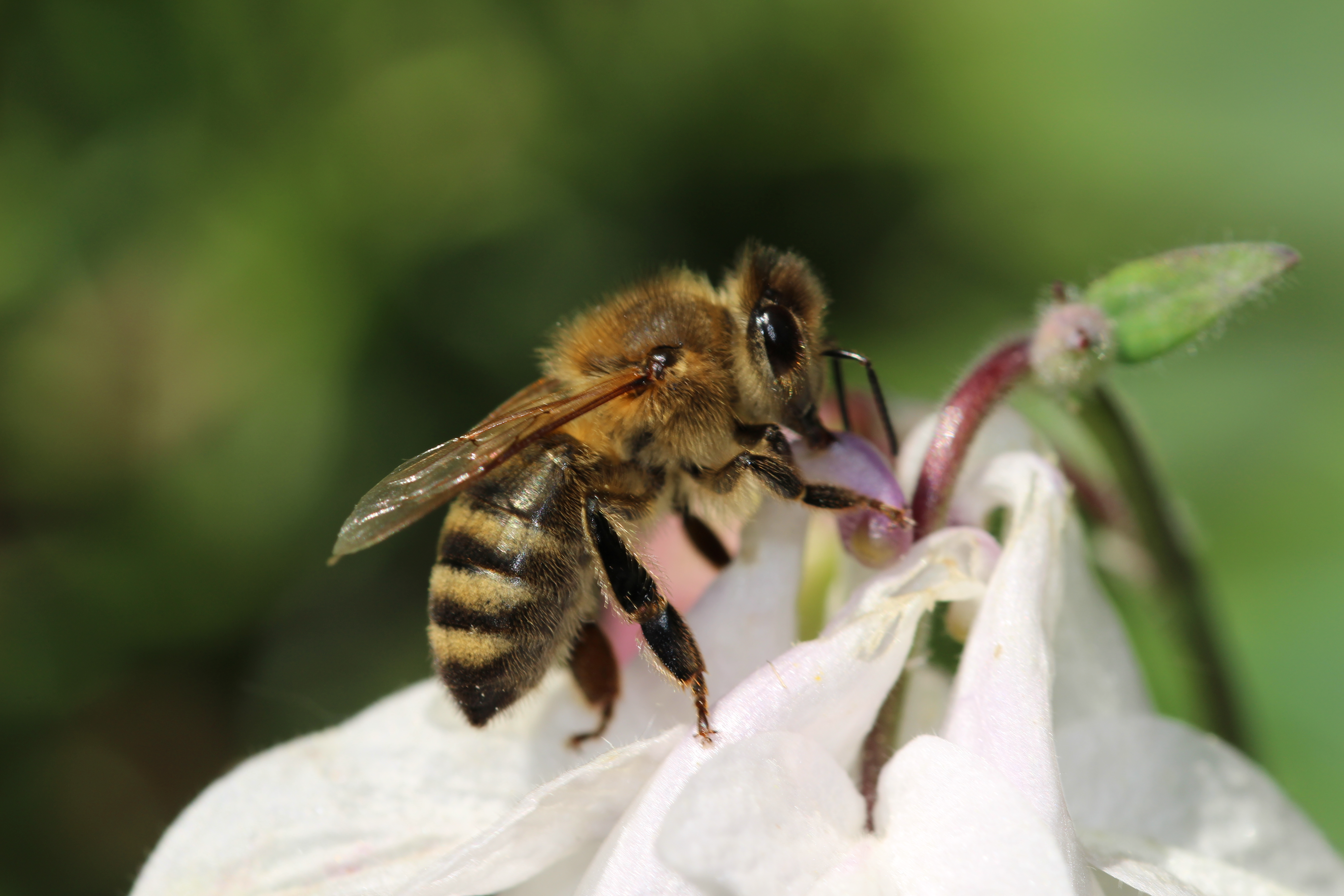 Aquilegia vulgaris